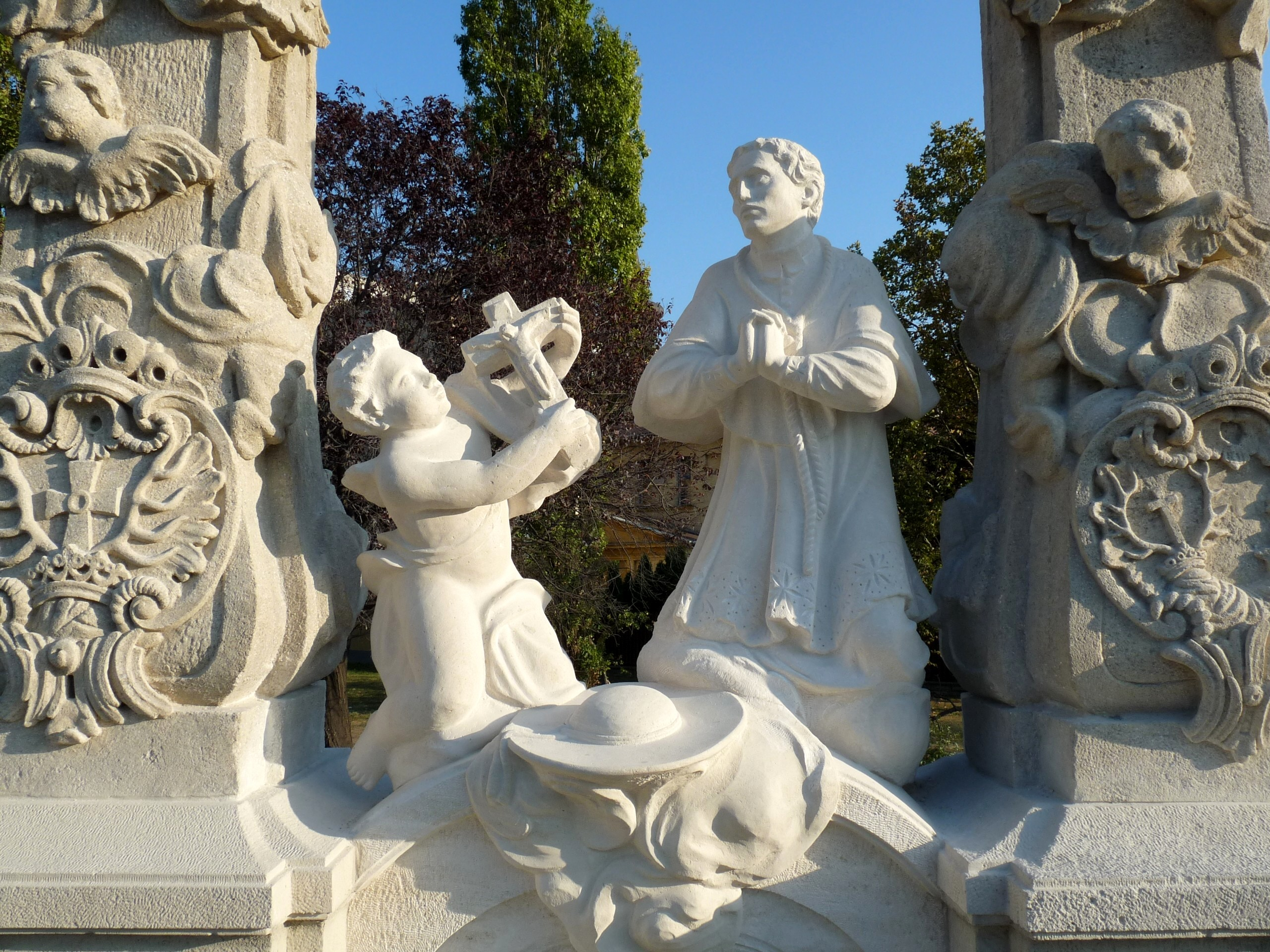 Statue of Charles Borromeo. Part of the Votive altar in Óbuda. (Budapest, District III, Flórián Square)